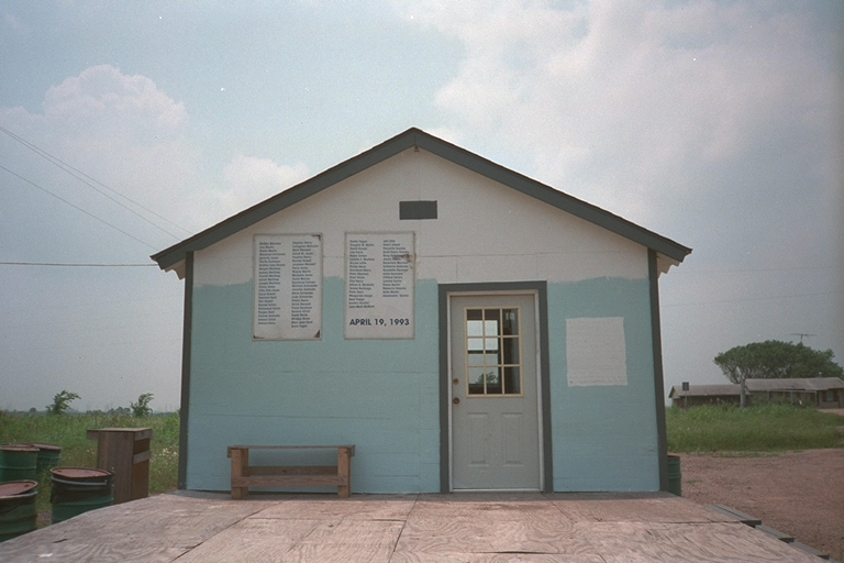 Mount Carmel (Branch Davidian compound site), near Waco, TX, 1995. Building.